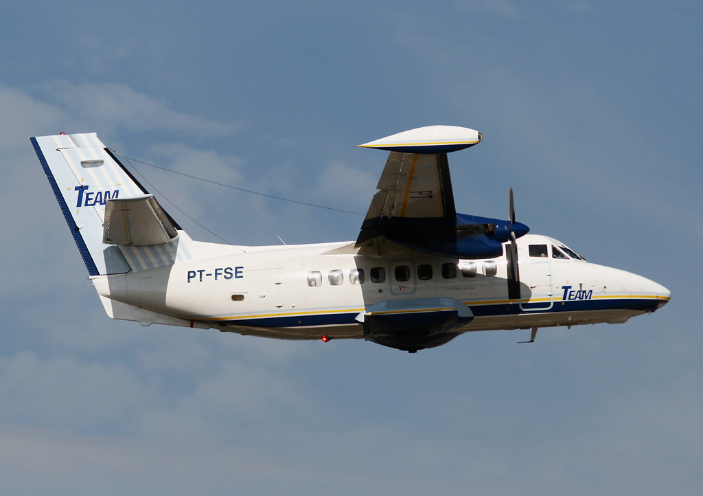 Let L410UVP-E20 PT-FSE departs Rio de Janeiro Santos Dumont Airport